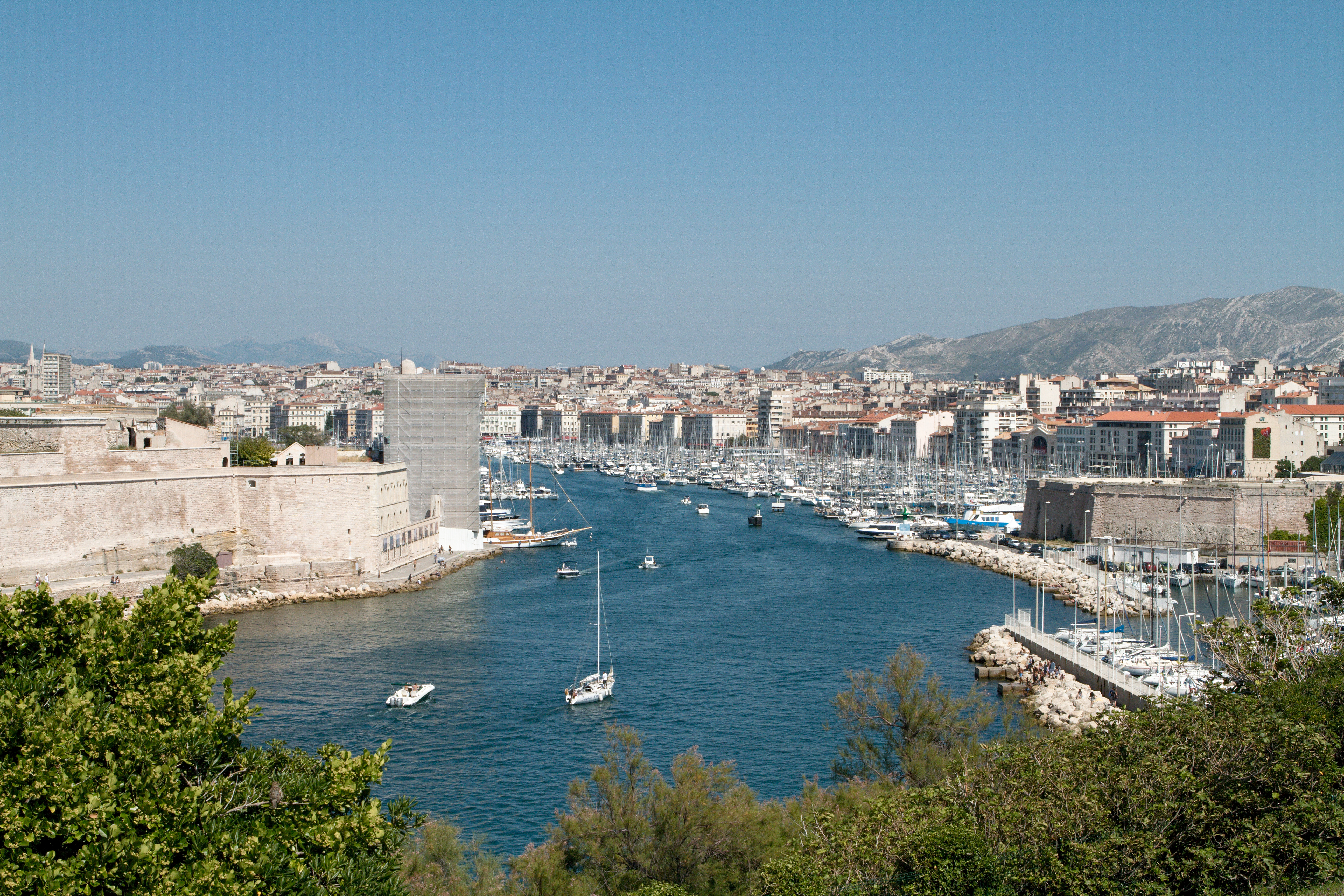 The Old Port of Marseille, seen from the Pharo park. Bouches-du-Rhône (France).